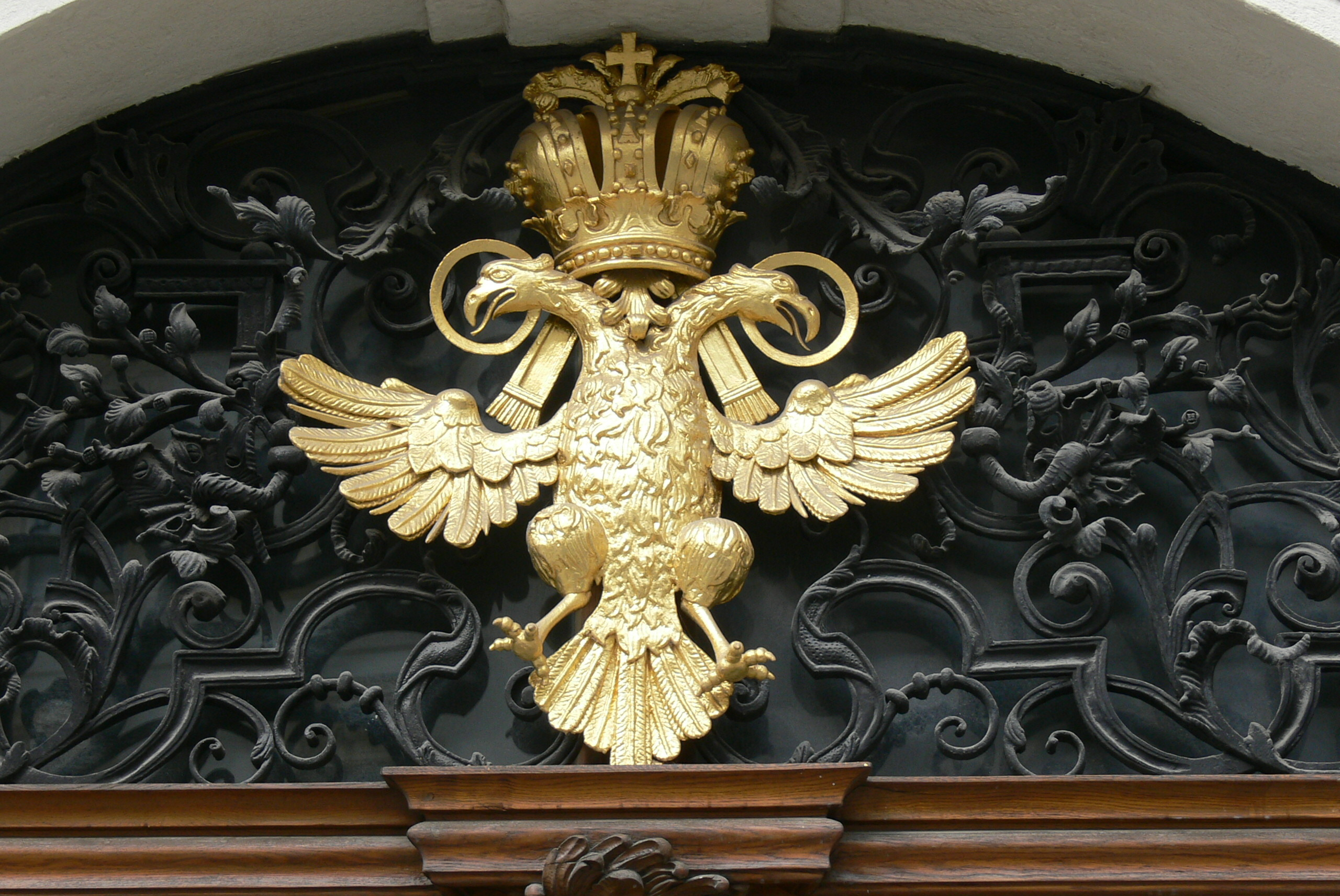 Vienna. Bohemian court chancellery ( 1714 ) - Crowned double-headed eagle above the entrance.